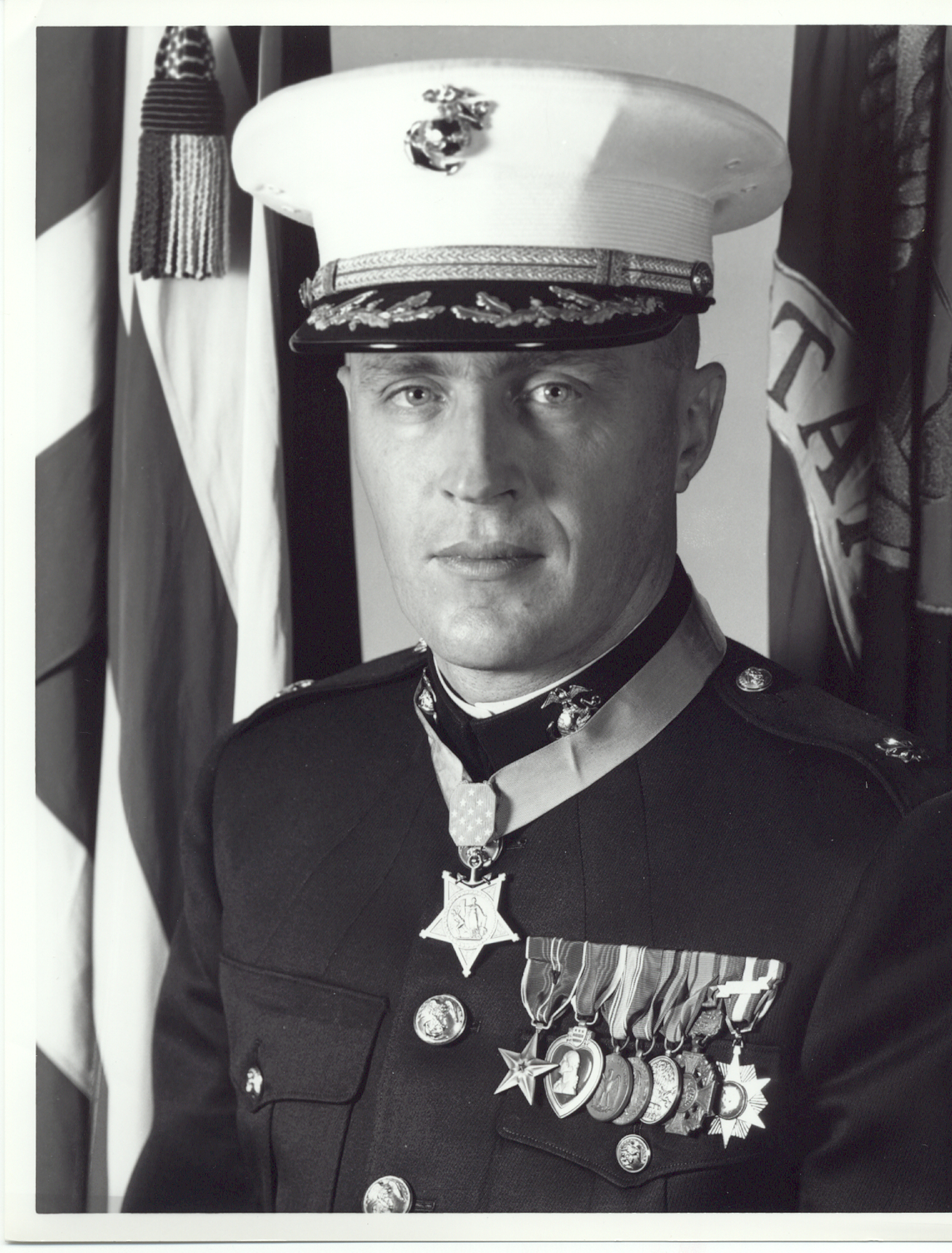 Howard V. Lee, USMC. Medal of Honor recipient for actions during the Vietnam War. Source: Official Marine Corps photo URL: Author: United States Marine Corps